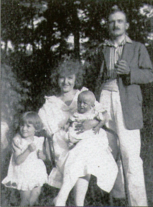 Hungarian Poet János Pilinszky's family photo